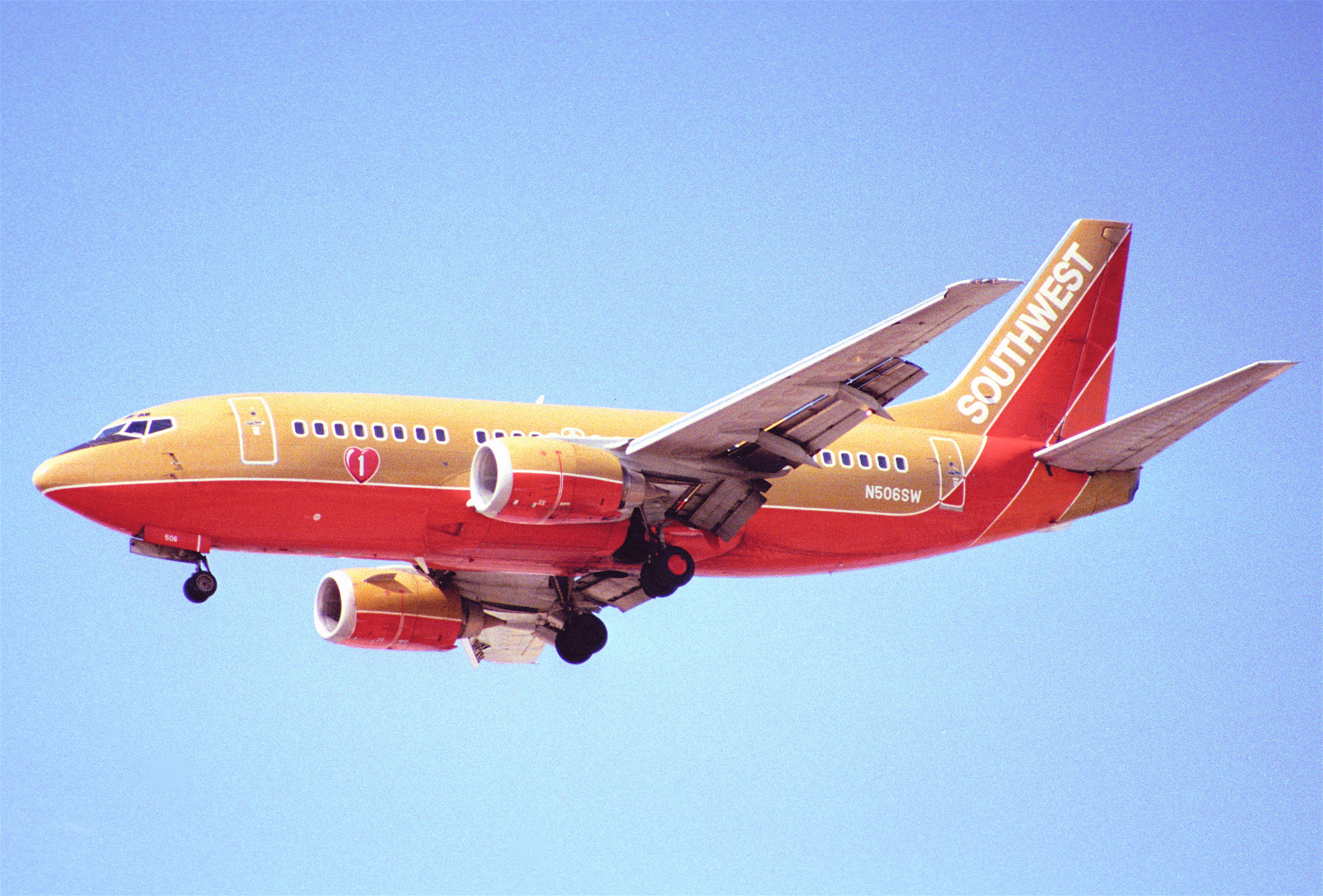 Southwest Airlines Boeing 737-5H4; N506SW@LAS;01.08.1995